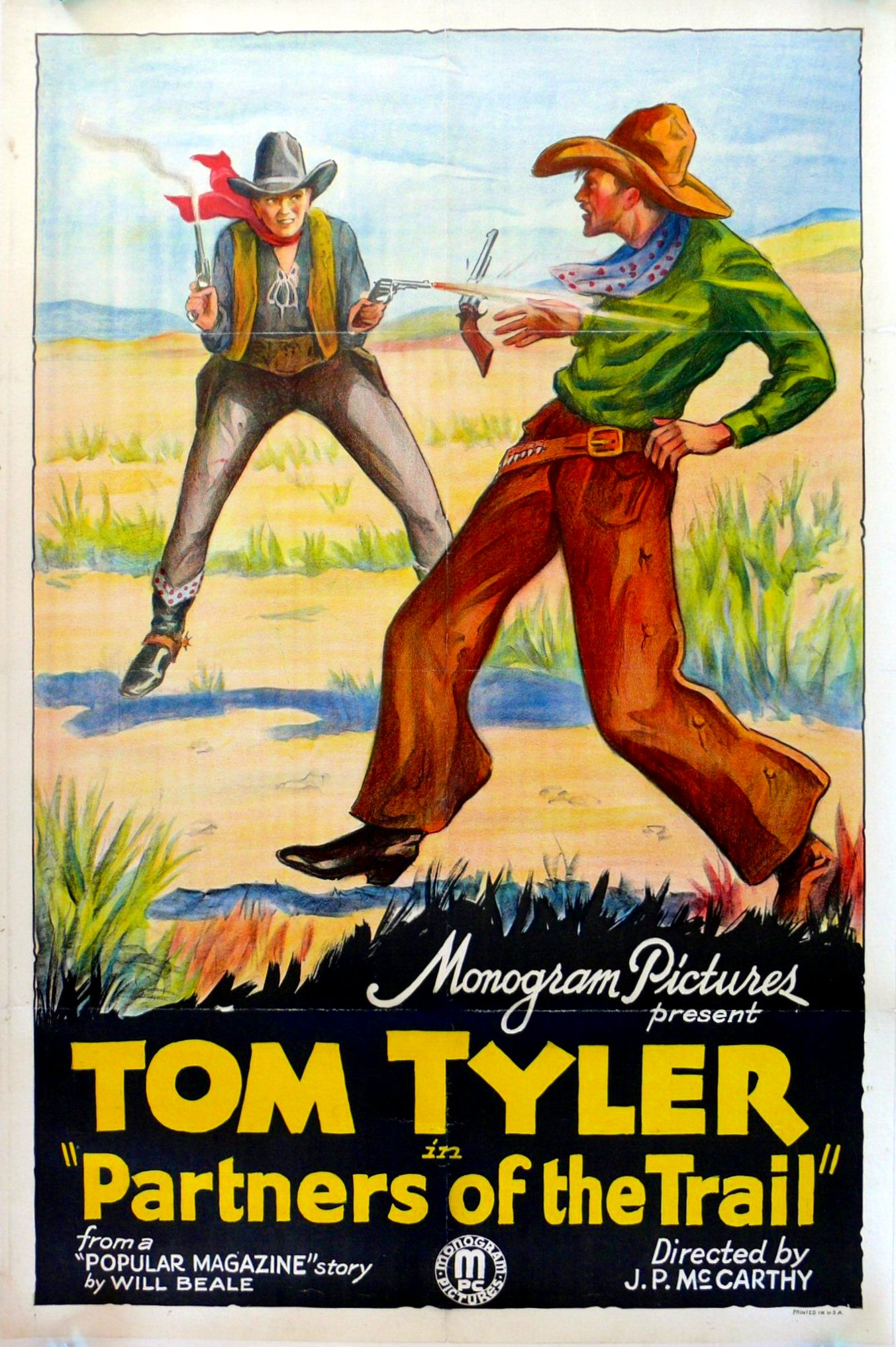 Poster of Partners of the Trail (1931)